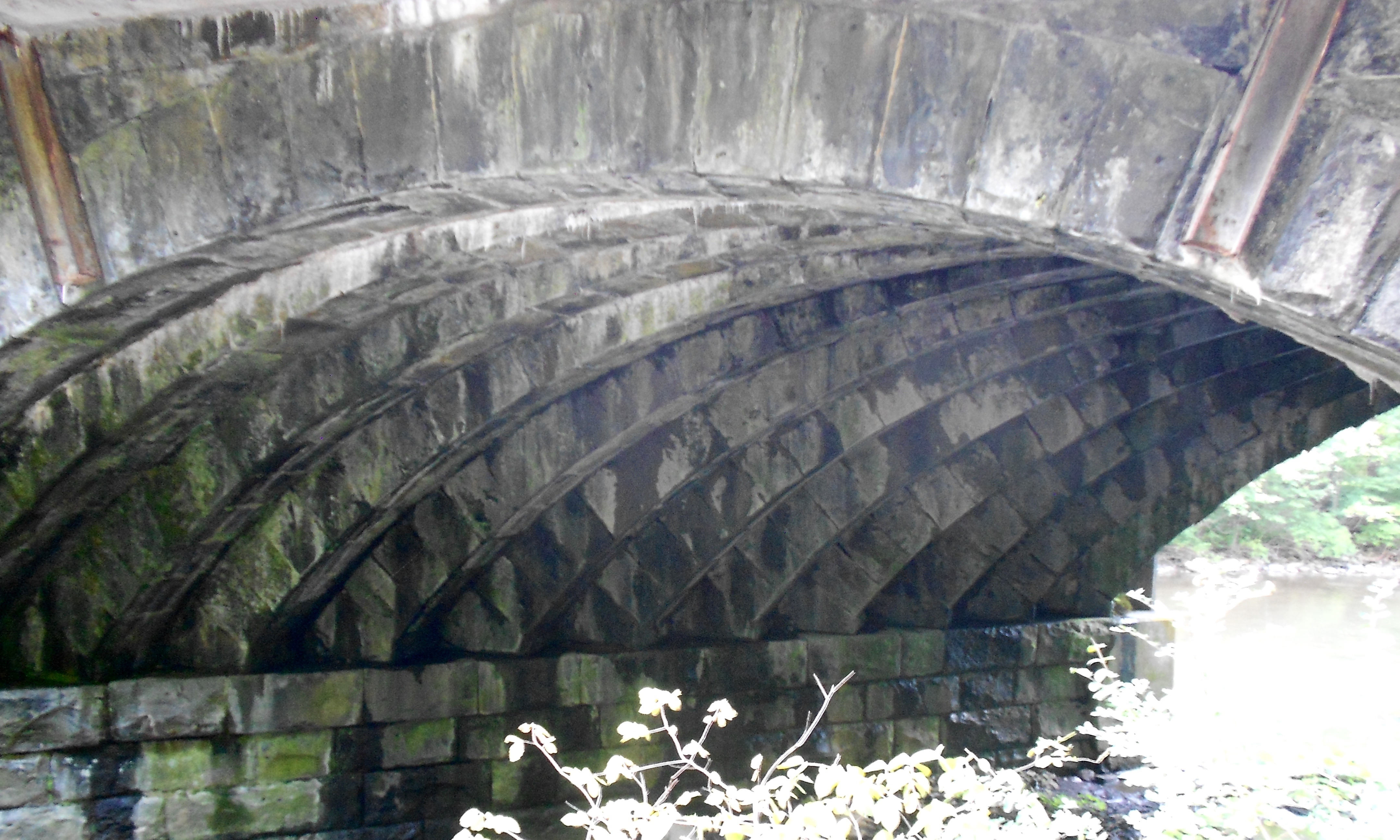 Pennsylvania Railroad District listed on the NRHP on March 20, 1990 at Conrail mile markers 213.73 to 218.88, just west of Spruce Creek, PA in Spruce Creek Townshipin Huntingdon County, Pennsylvania. Note narrow winding road, nowhere to park, lots of "No Trespassing" signs - this site is a bit dangerous to photograph. This particular bridge is probably the nearest to Spruce Creek in the district and is a skew bridge with about 5-8 arches.